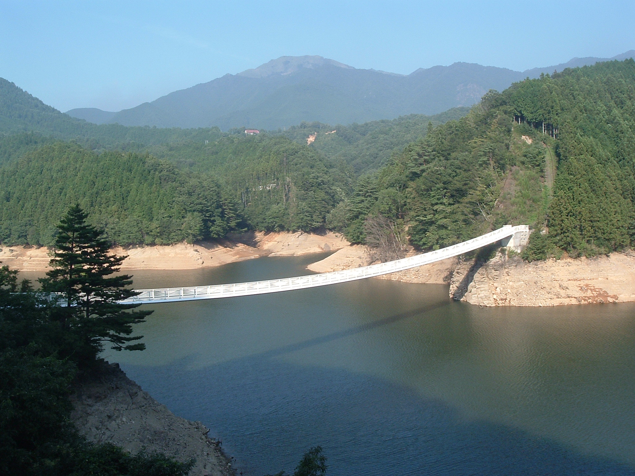 Mount Dogamori seen from the southwest. Taken from Lake Omogo. Shikisai Bridge in the foreground.